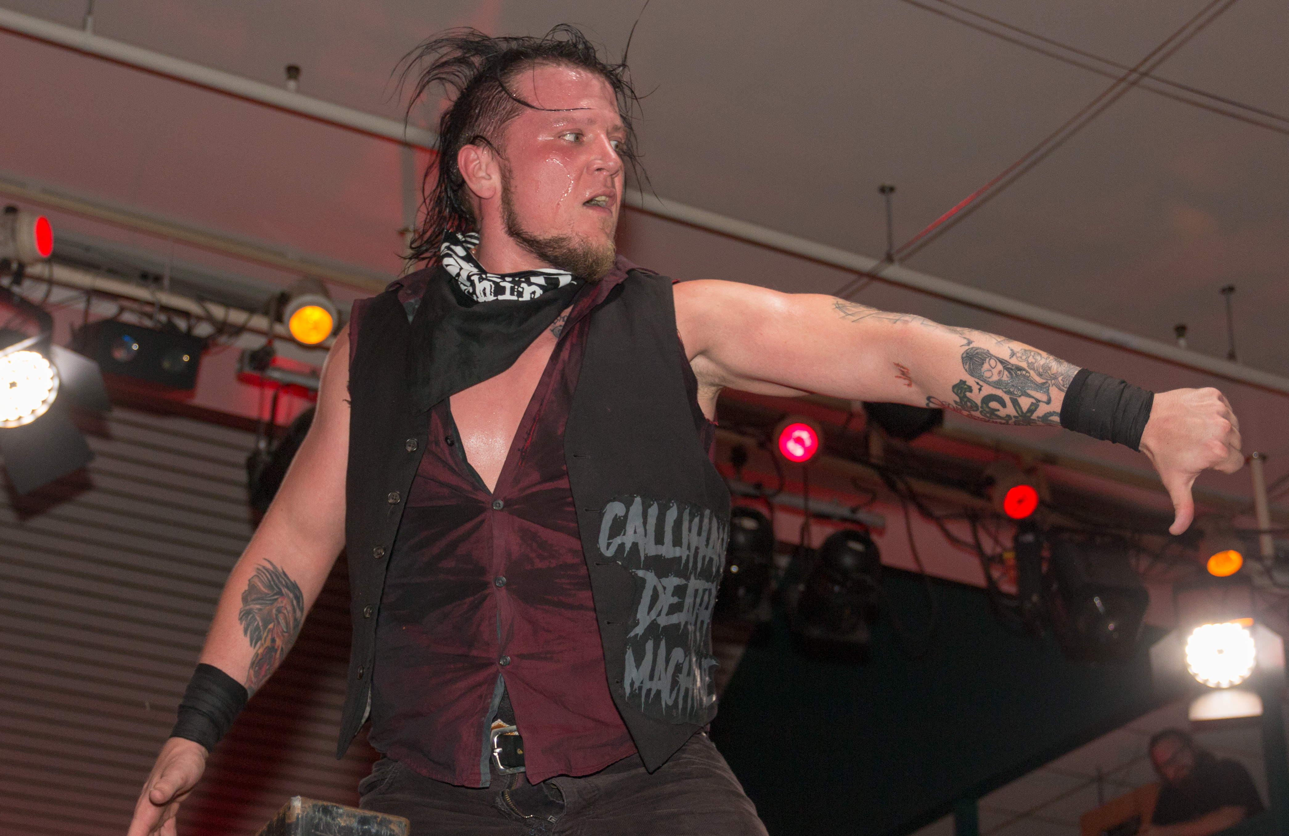 Pro wrestler Sami Callihan posing post-match at a Smash Wrestling show at Fanshawe College in London, ON